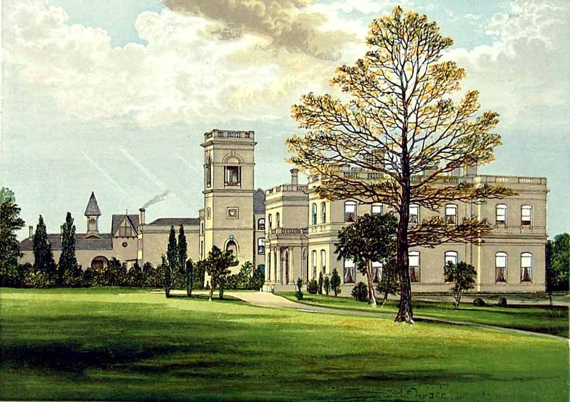 19th century coloured print of Stowlangtoft Hall, Suffolk